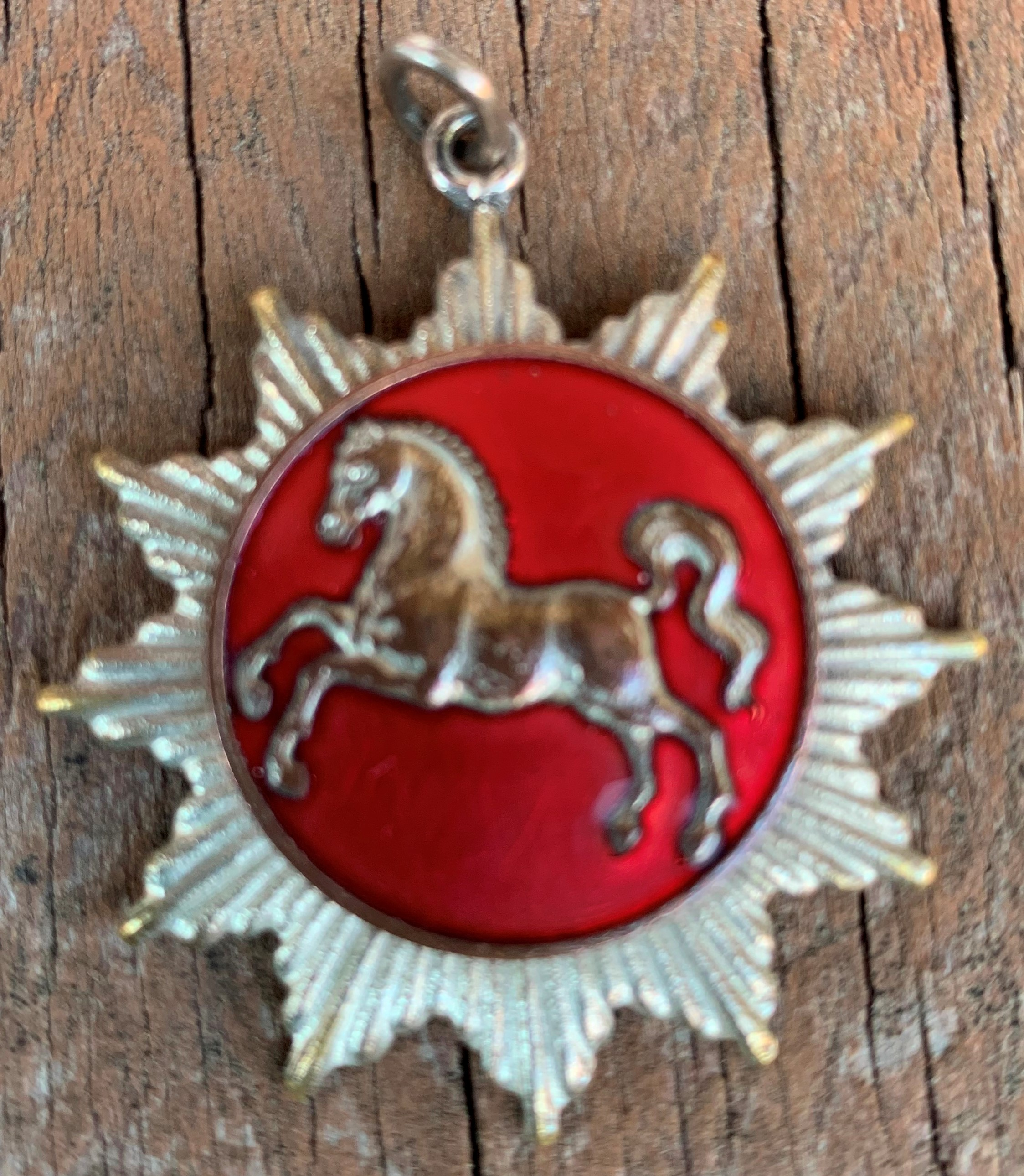 Saxony Lodge 842 Jewel dominated by the rearing stallion that is represented widely within Niedersachsen (Lower Saxony) and stands proudly on the Niedersachsen flag